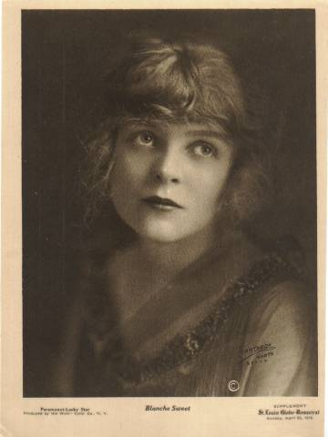 Blanche Sweet